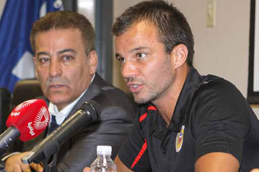 head coach anthony hudson